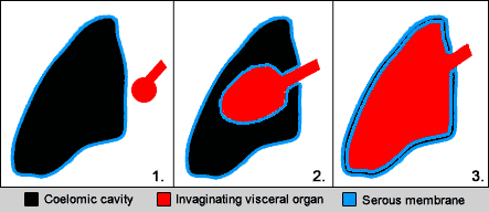 Process of visceral organ invagination into a serous cavity. Created by Emma Farmer (User:Serephine)